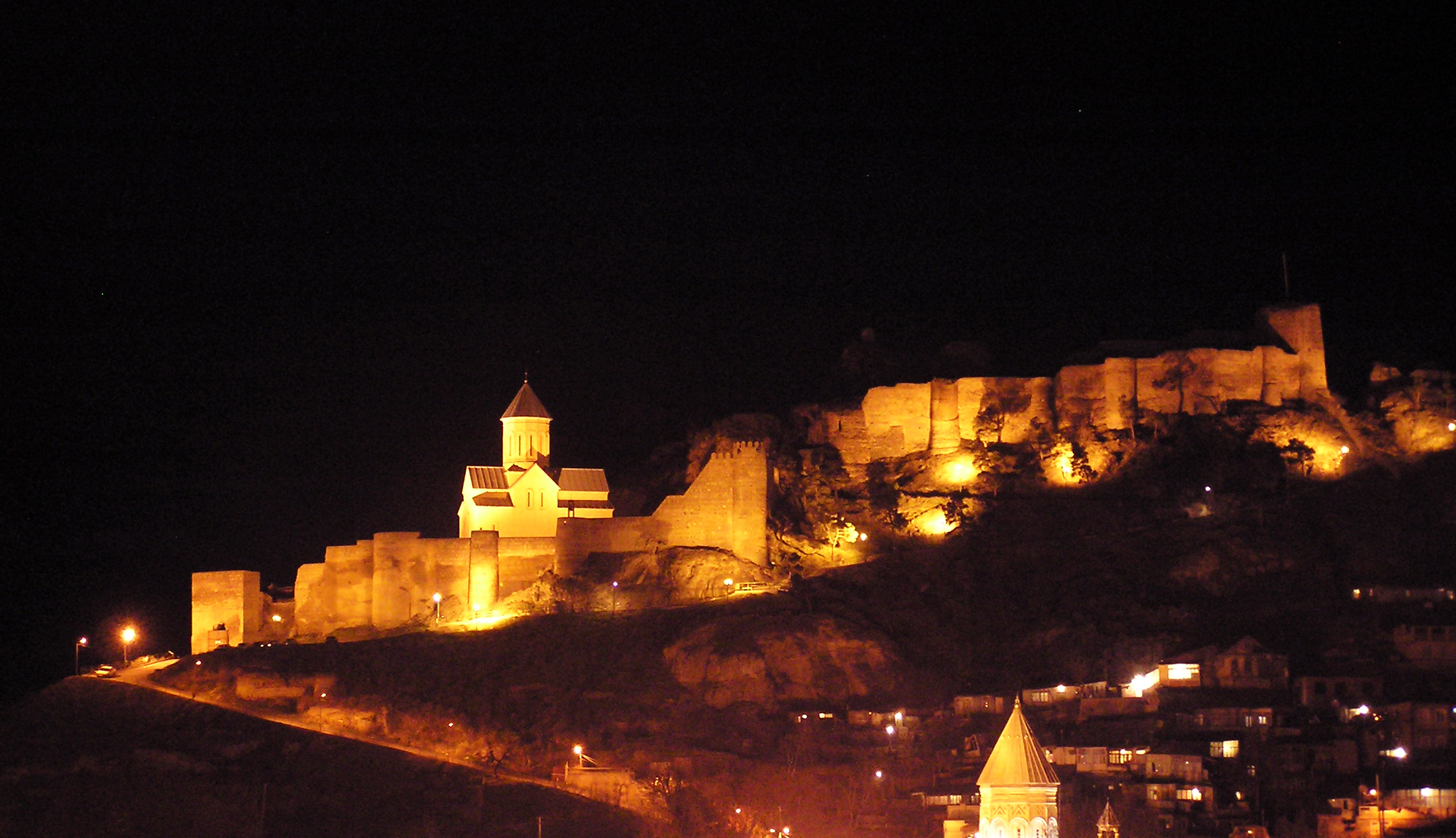 Tbilisi at night: The Narikala fortress and St. Nicholas' church.